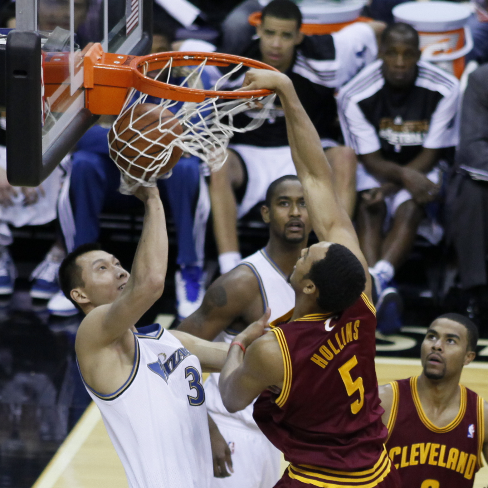 Ryan Hollins of Cleveland Cavaliers dunking against Yi Jianlian of Washington Wizards November 6, 2010